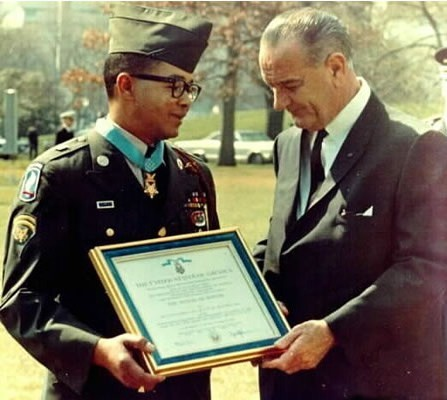 Official Photograph of awarding of Medal of Honor